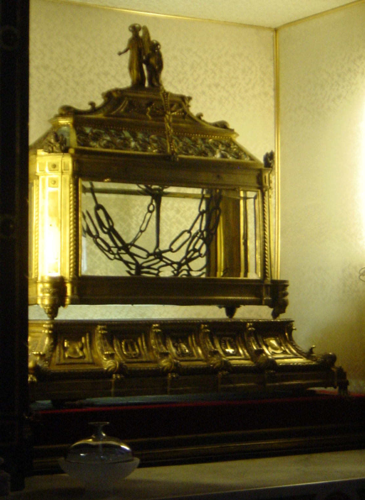 Chains of Saint Peter. Second class relics. Placed in the church Basilica di San Pietro in Vincoli, Rome, Italy.